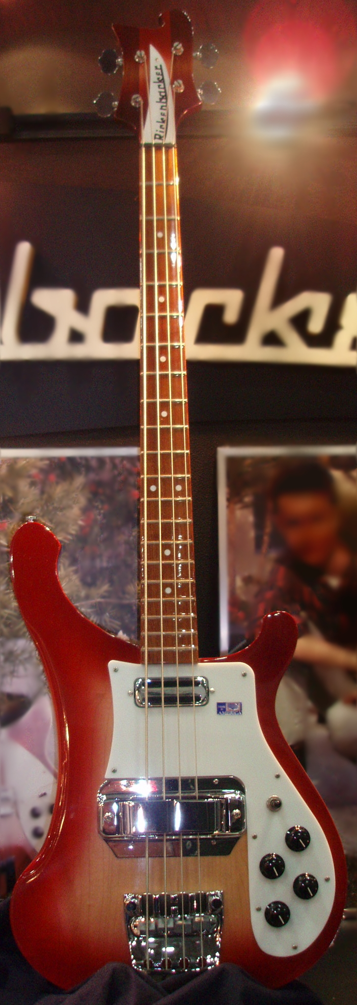 Rickenbacker 4001C64S Instrumental Fair 2007(in Pacifico Yokohama)